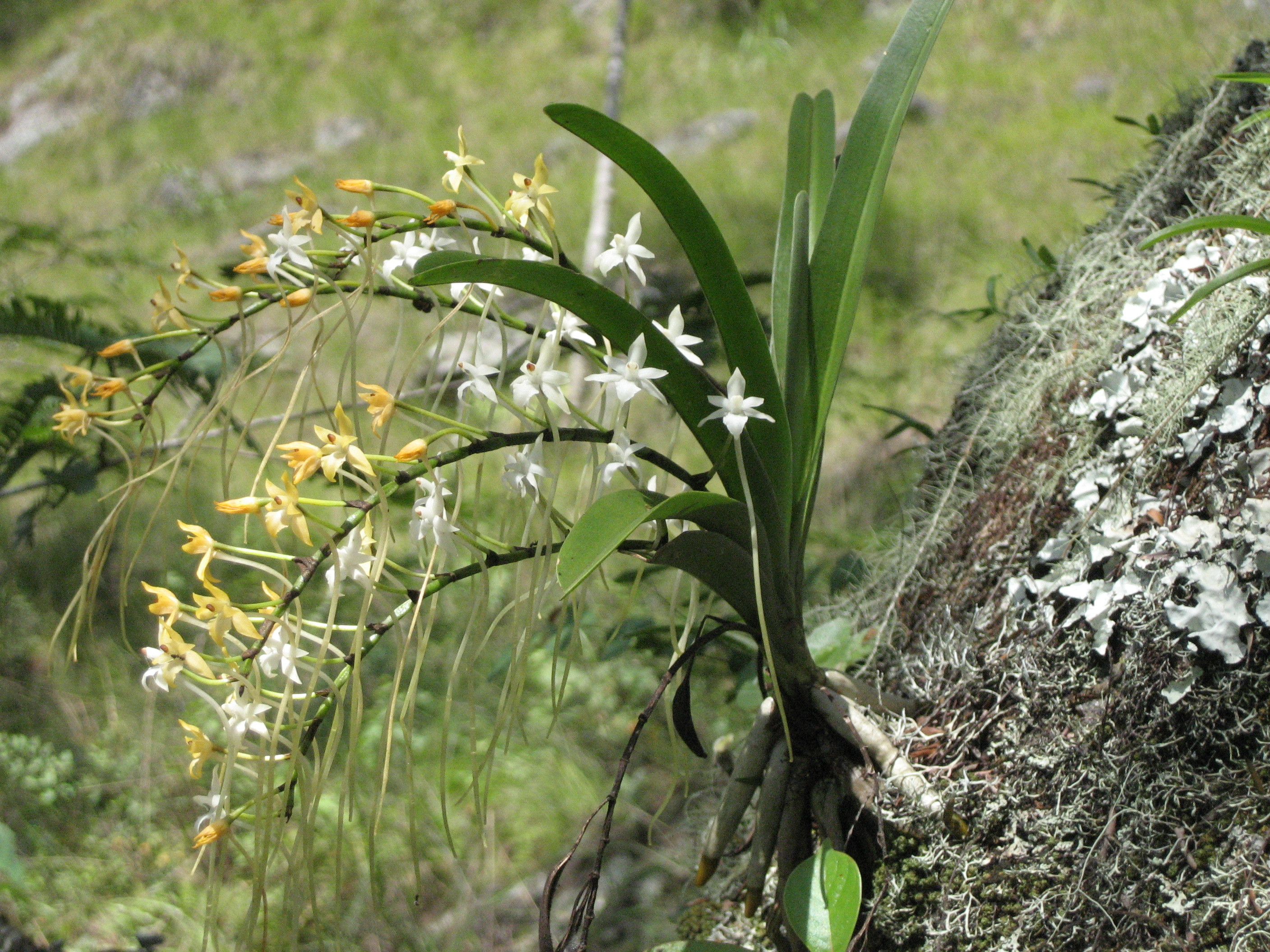 Rangaeris muscicola on Mount Mecute in Manica Province of Mozambique.